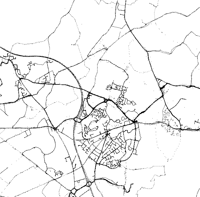 This map may be incomplete, and may contain errors. Don't rely solely on it for navigation.